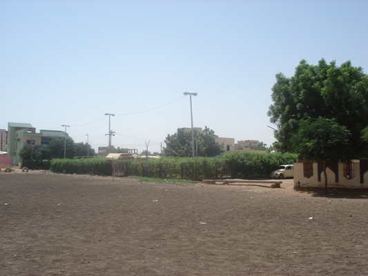 Shabia Park -Khartoum Bhri-Sudan